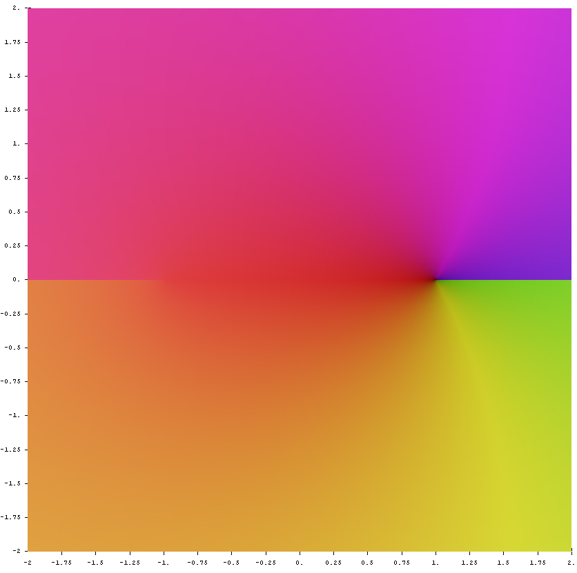 function ArcCos[z] in the complex plane